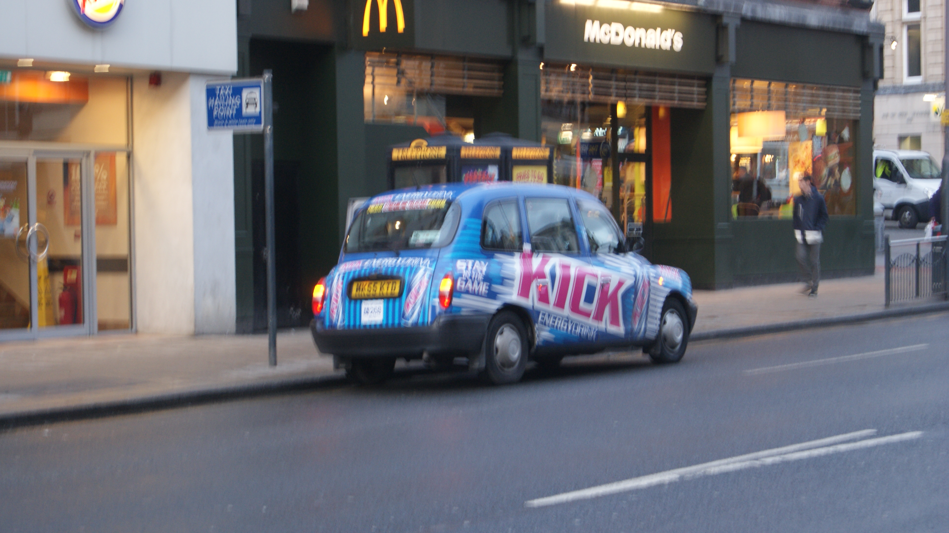 Taxi advertisng Kick energy drink seen on Boar Lane in Leeds, West Yorkshire. Taken on the afternoon of Monday the 17th of December 2012.